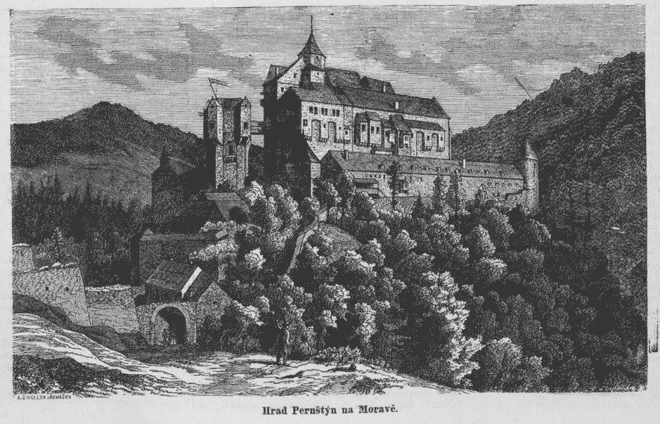 Castle Pernštejn (older name: Pernštýn) in Southern Moravia. Picture published in Zlatá Praha magazine, year 2, issue 7, page 76 (April 1, 1865).